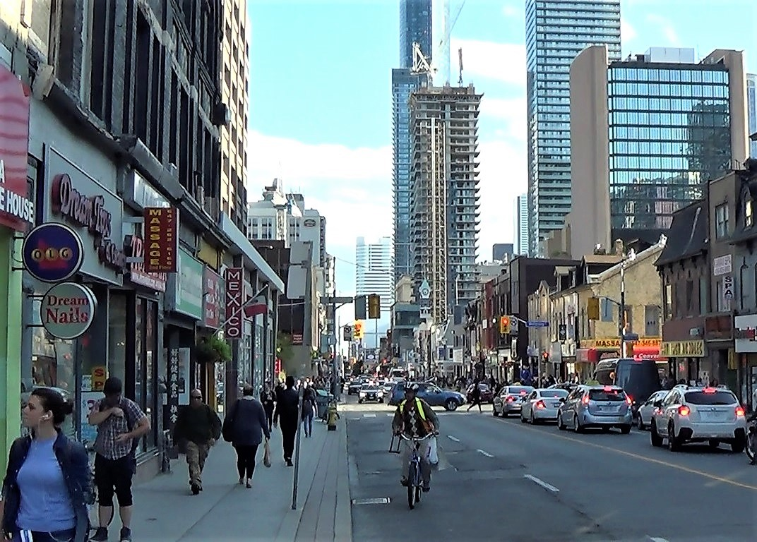 View south down Yonge Street from Wellesley Street